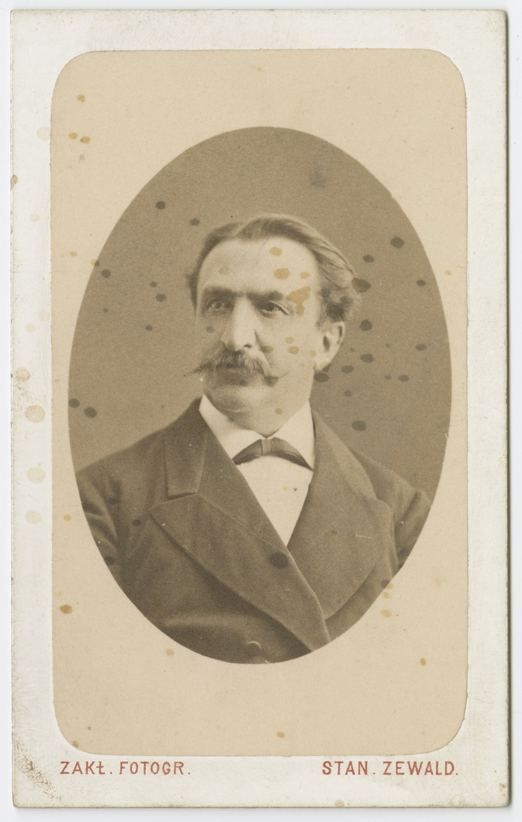 Stefan Giller (1833/34-1918) - Polish writer, albumine print.